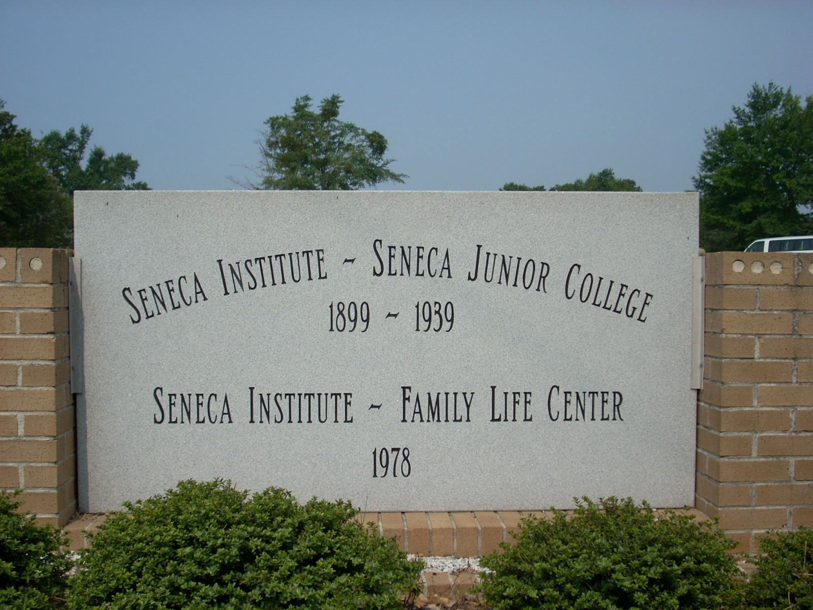 Seneca Institute - Family Life Center Sign, Seneca, South Carolina